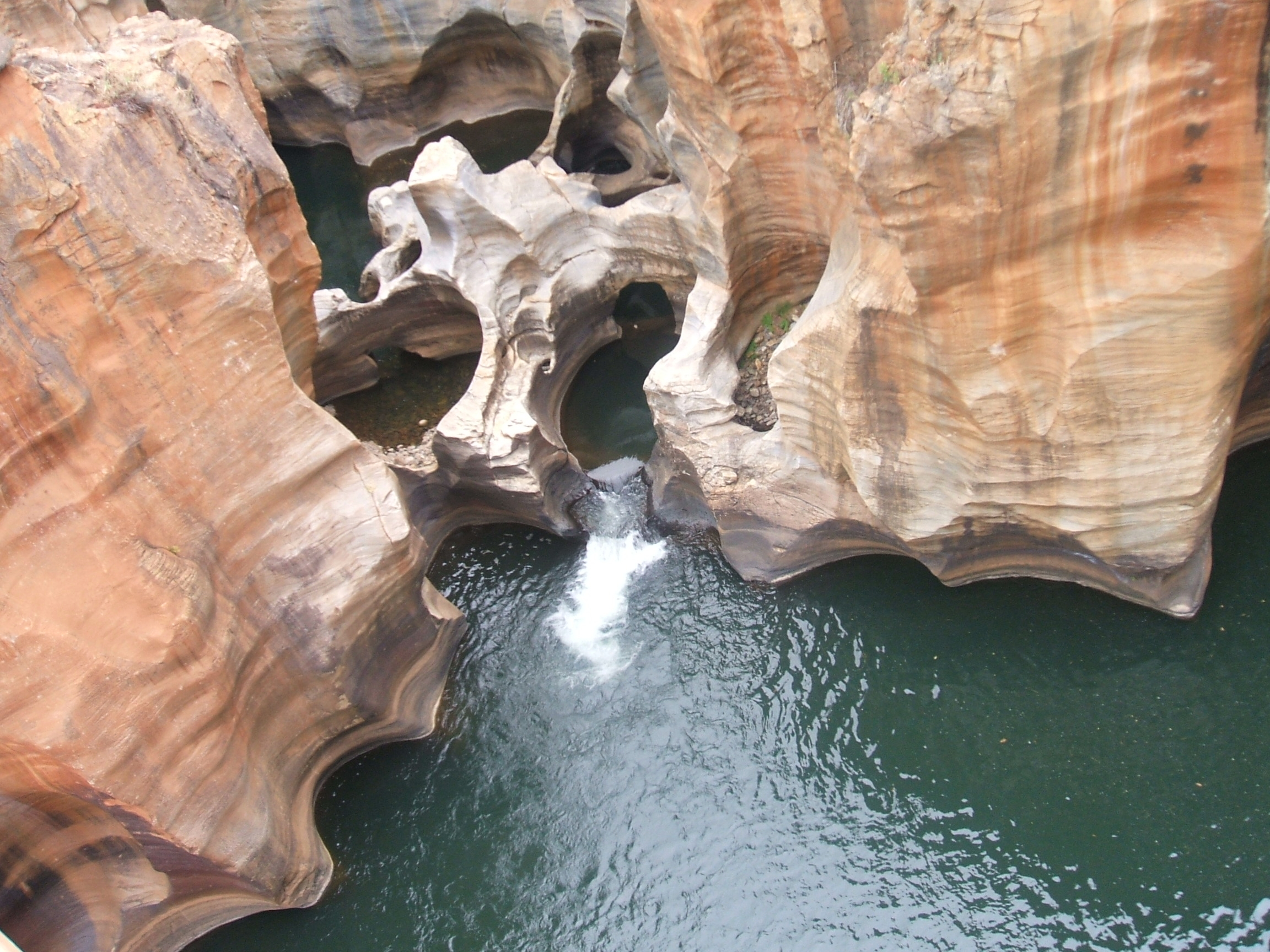 The Treur-Blyde confluence at Bourke's Luck Potholes, in the upper Blyde River Canyon, South Africa